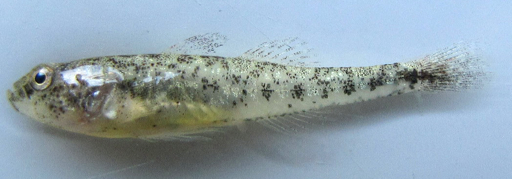 Caucasian dwarf goby (Knipowitschia caucasica) from the Caspian Sea near Bandar-e Anzali, Iran